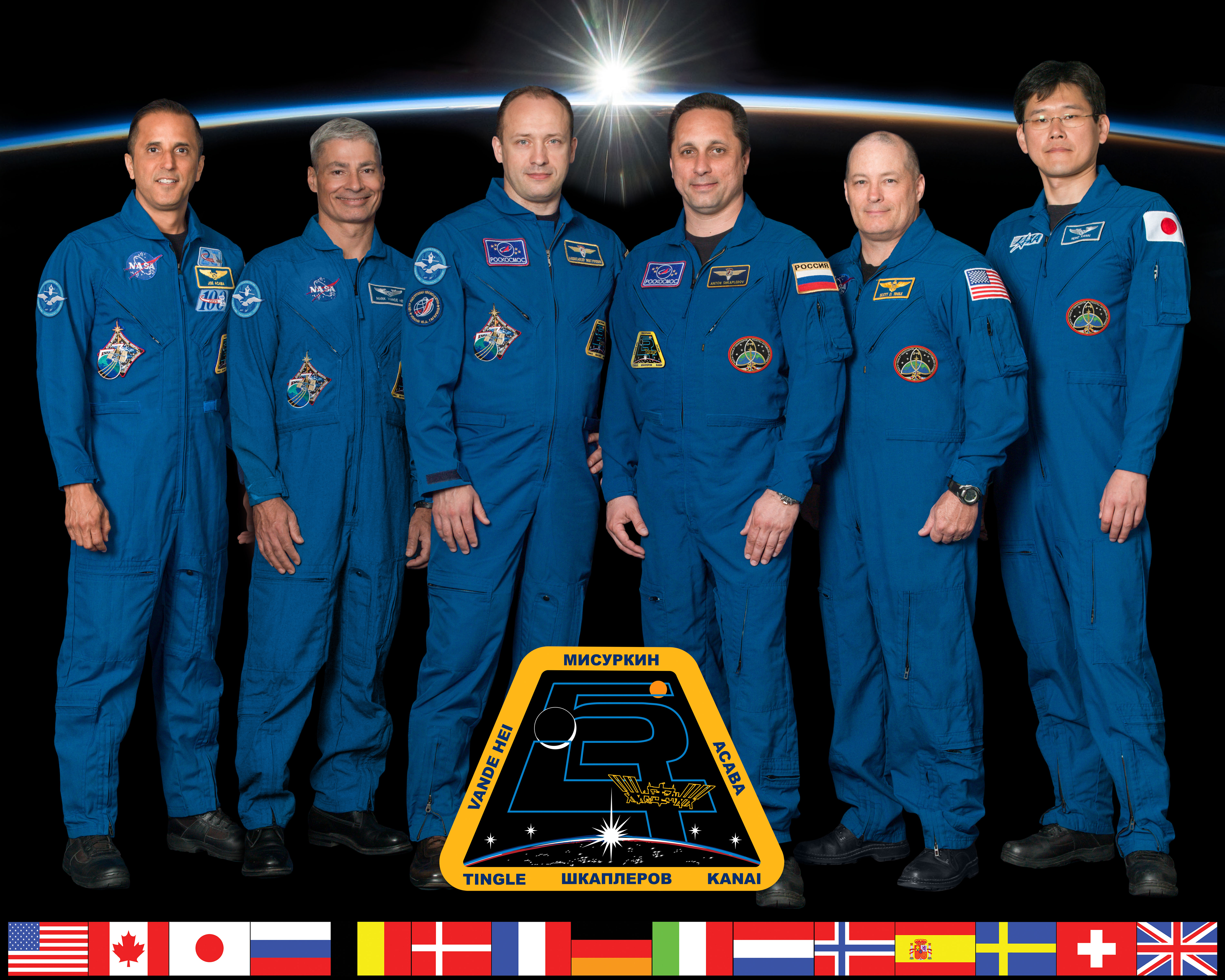 The six-member Expedition 54 crew poses for an official crew portrait at the Johnson Space Center in Houston, Texas. From left are Flight Engineers Joe Acaba and Mark Vande Hei of NASA, Commander Alexander Misurkin of Roscosmos and Flight Engineers Anton Shkaplerov of Roscosmos, Scott Tingle of NASA and Norishige Kanai of the Japan Aerospace Exploration Agency.